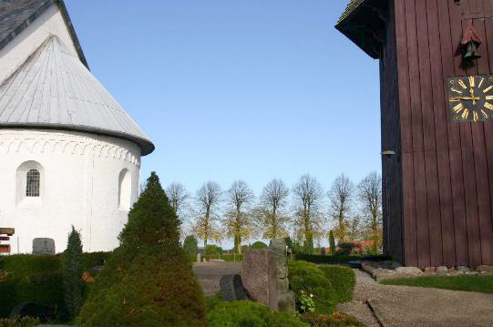 Apse of Broager Church, Sønderborg Kommune, Denmark. The bell tower is on the right